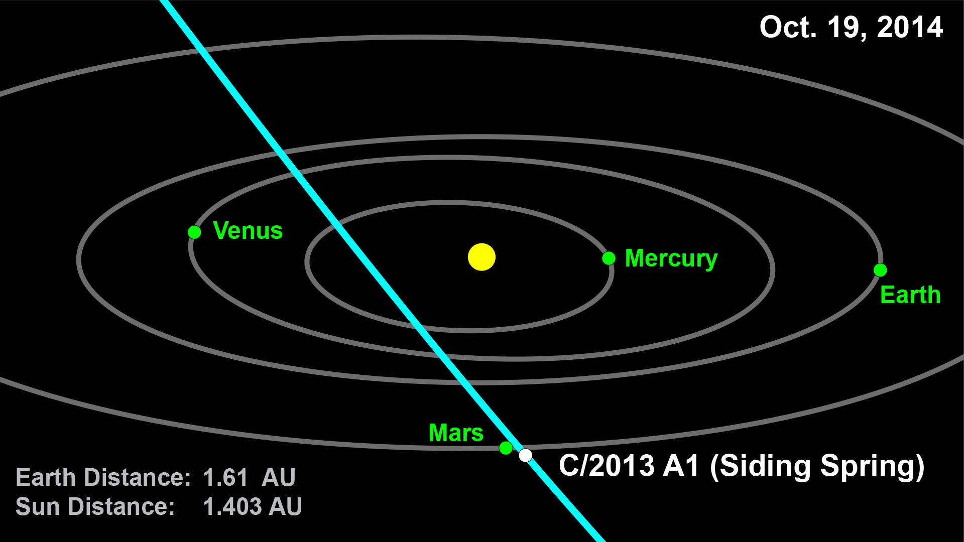 Comet to Make Close Flyby of Red Planet in October 2014 This computer graphic depicts the orbit of comet 2013 A1 (Siding Spring) through the inner solar system. This computer graphic depicts the orbit of comet 2013 A1 (Siding Spring) through the inner solar system. Image credit: NASA/JPL-Caltech April 12, 2013 Update: New observations of comet C/2013 A1 (Siding Spring) have allowed NASA's Near-Earth Object Office at the Jet Propulsion Laboratory in Pasadena, Calif. to further refine the comet's orbit. Based on data through April 7, 2013, the latest orbital plot places the comet's closest approach to Mars slightly closer than previous estimates, at about 68,000 miles (110,000 kilometers). At the same time, the new data set now significantly reduces the probability the comet will impact the Red Planet, from about 1 in 8,000 to about 1 in 120,000. The latest estimated time for close approach to Mars is about 11:51 a.m. PDT (18:51 UTC) on Oct. 19, 2014. At the time of closest approach, the comet will be on the sunward side of the planet. Future observations of the comet are expected to refine the orbit further. The most up-to-date close-approach data can be found at